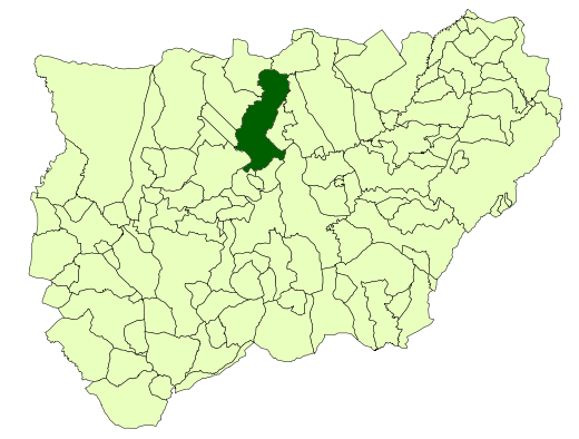 Situation of the municipality of Vilches (Jaén, Andalusia, Spain).